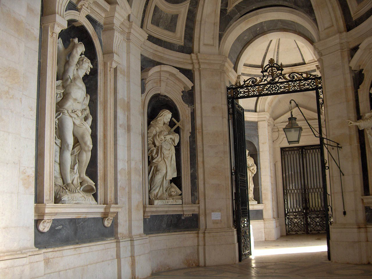 Entrance of the church in the Mafra National Palace; Mafra, Portugal; statues of St. Sebastian and St. Bruno